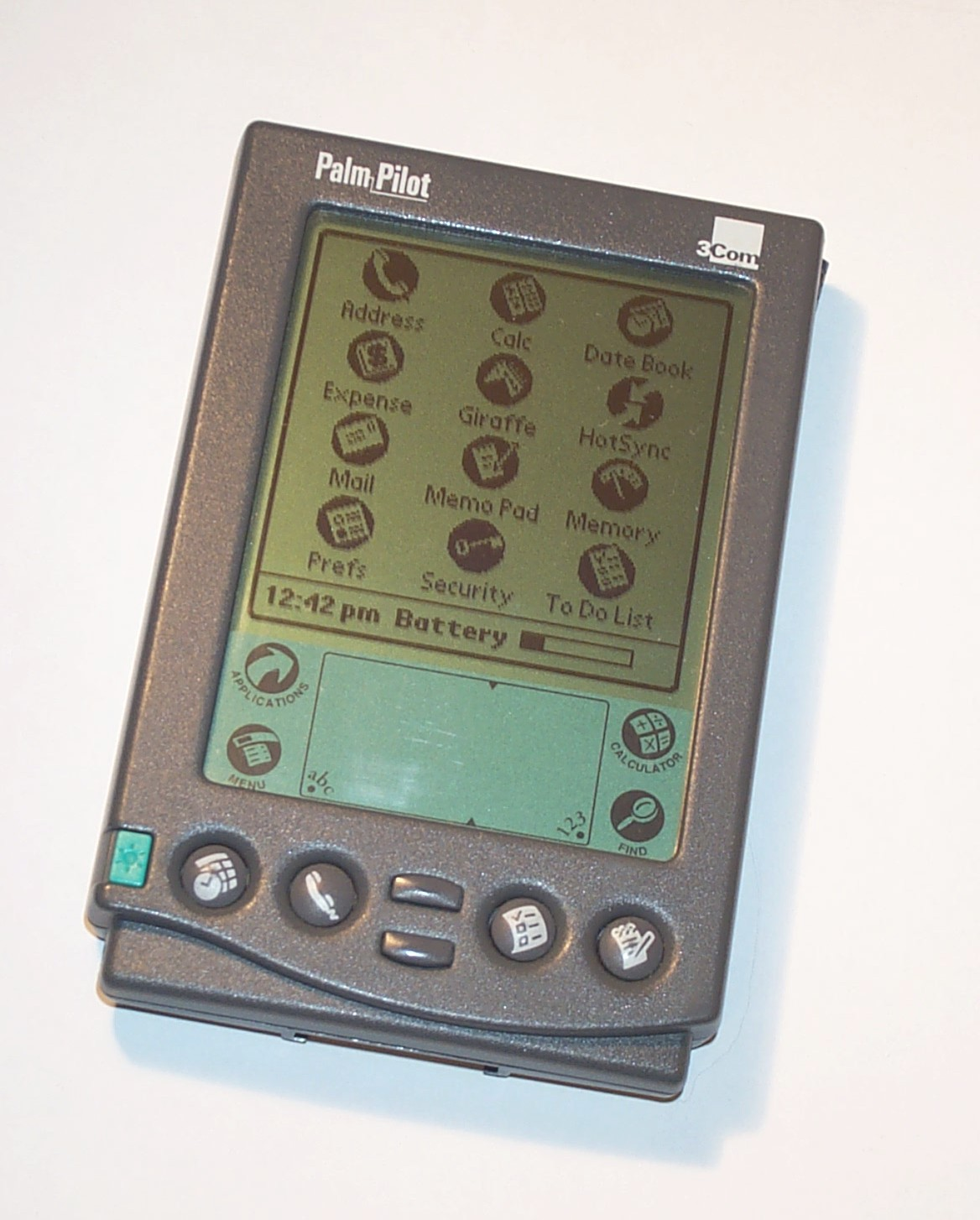 3Com PalmPilot Professional personal digital assistant (PDA).